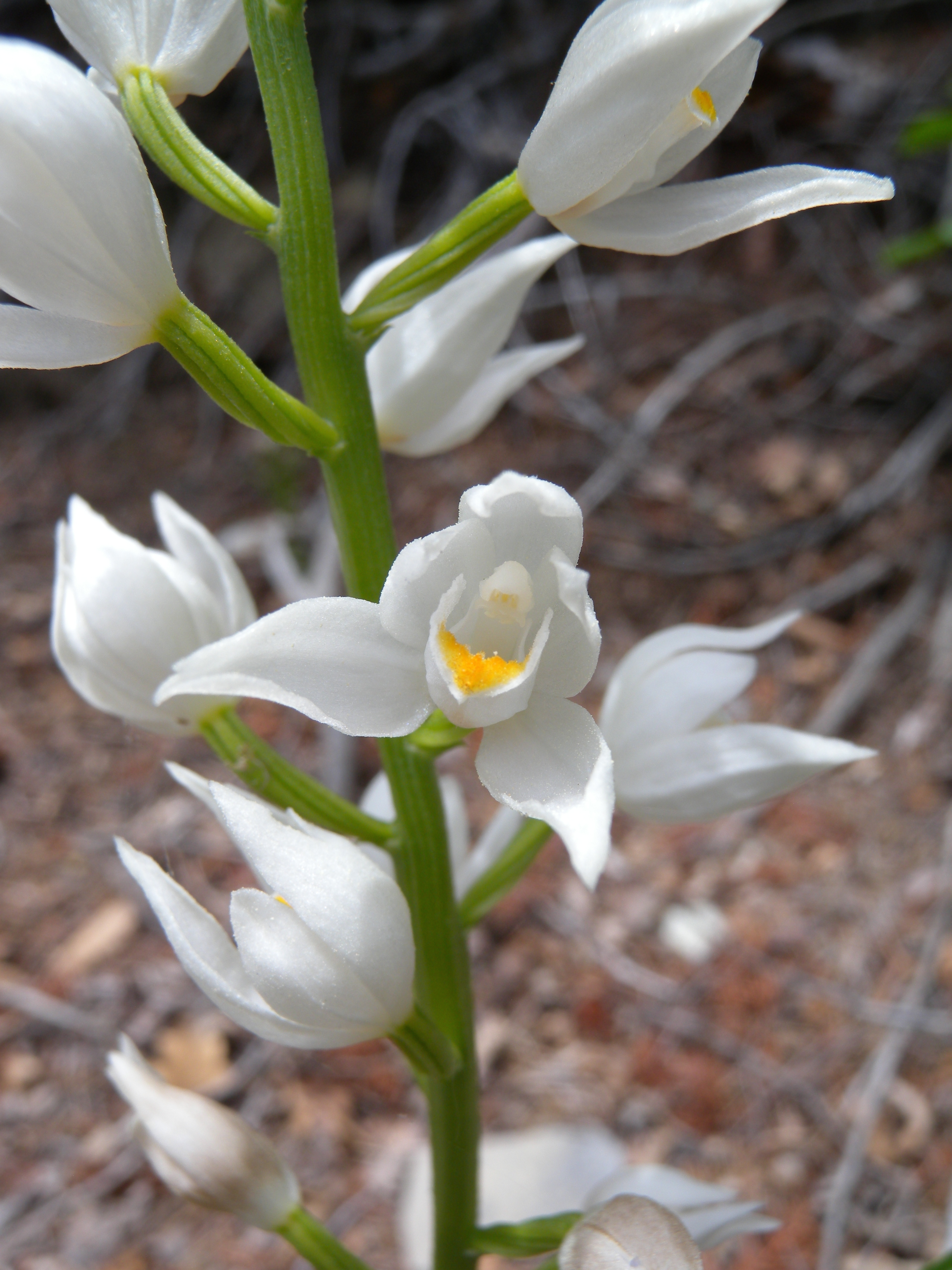 Flower of Cephalanthera longifolia (Orchidaceae); Erschmatt, Canton of Valais, Switzerland